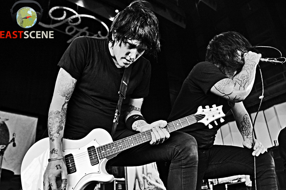 Alesana guitarrist and vocalist, Shawn Milke, Warped Tour 2010